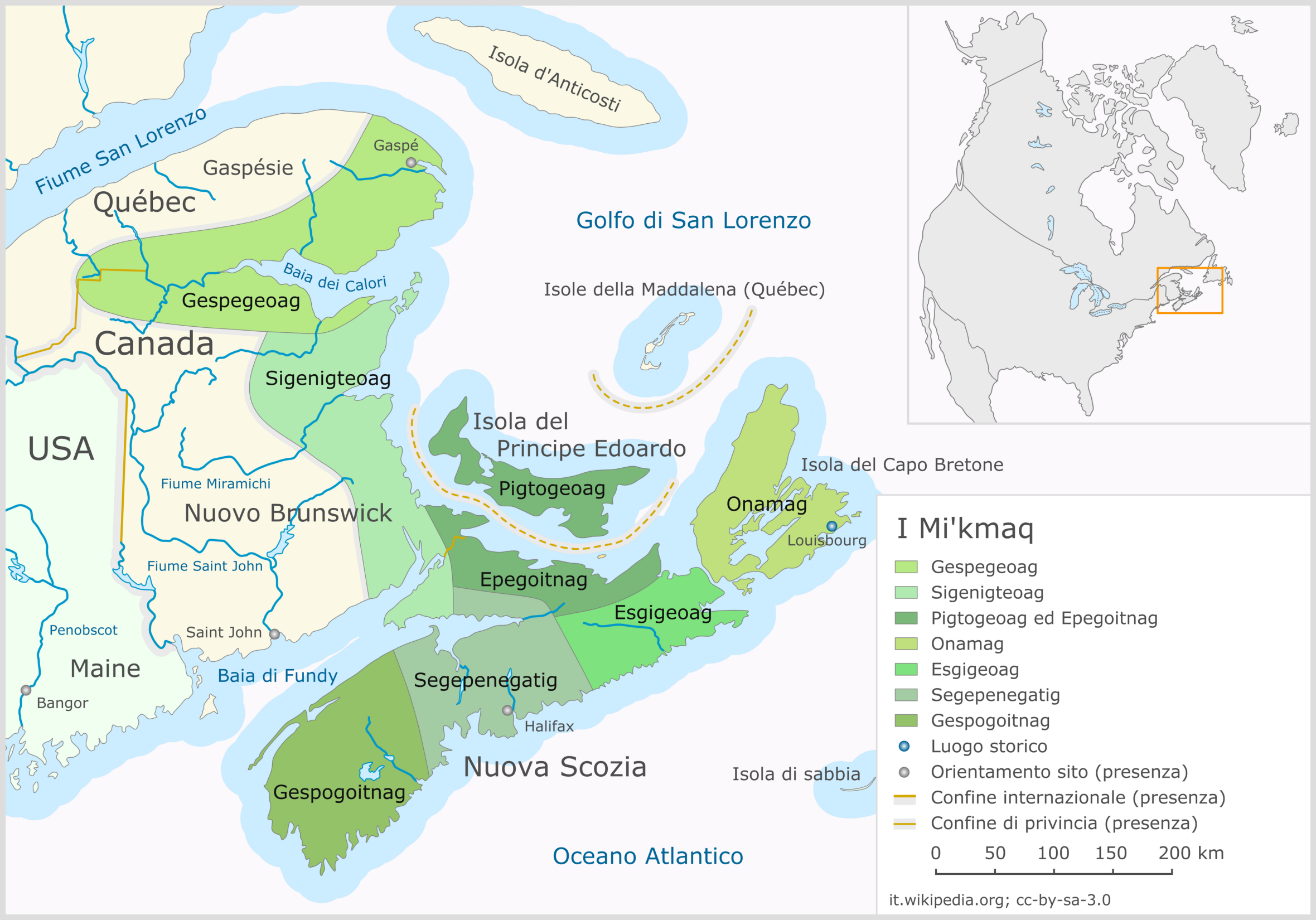 Former settlement areas of the seven Mi'kmaq branches